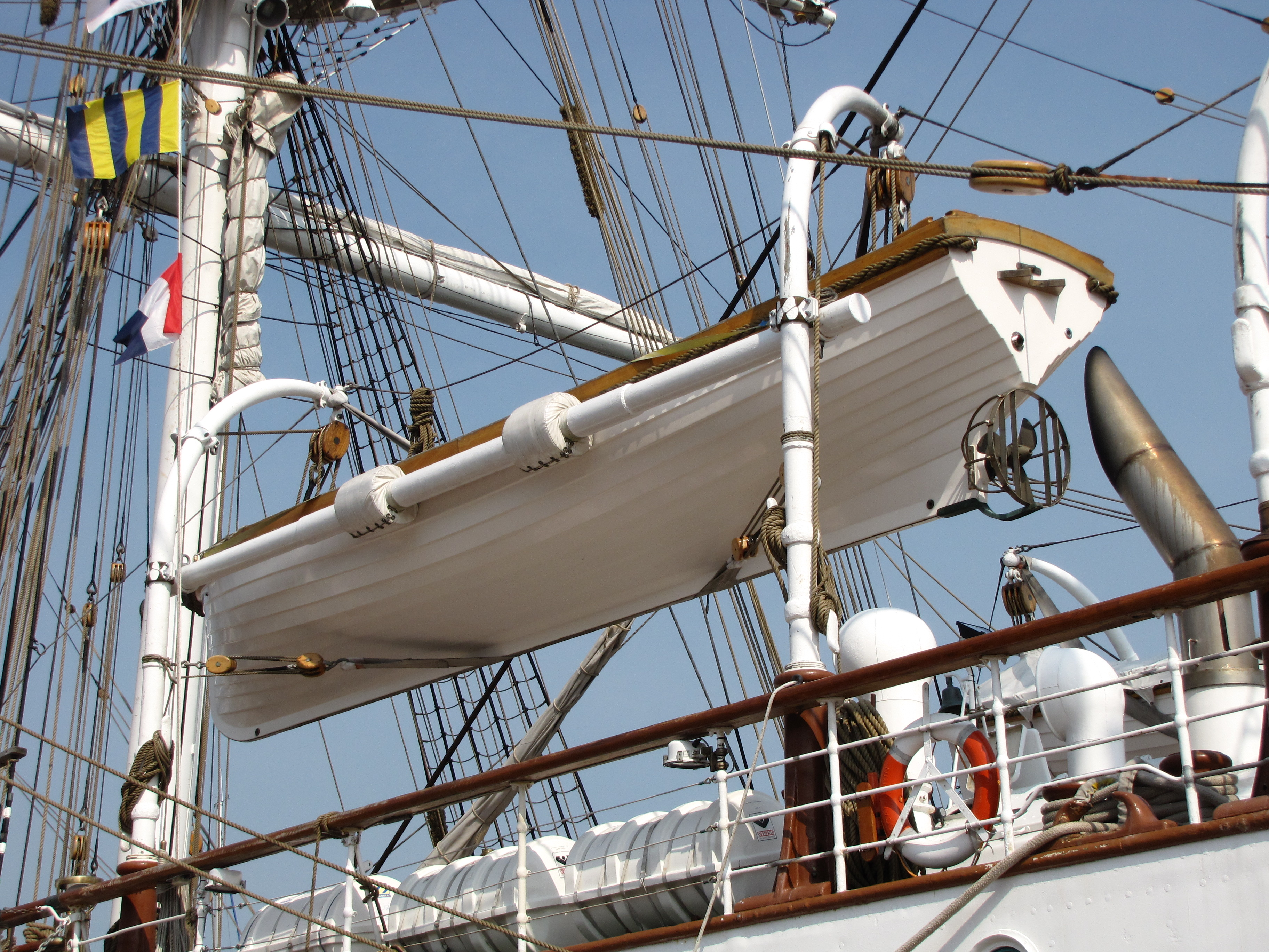 Boat on Norwegian sail training ship Statsraad Lehmkuhl. Photographed in Helsinki South Harbour during Nordic naval cadet meeting.